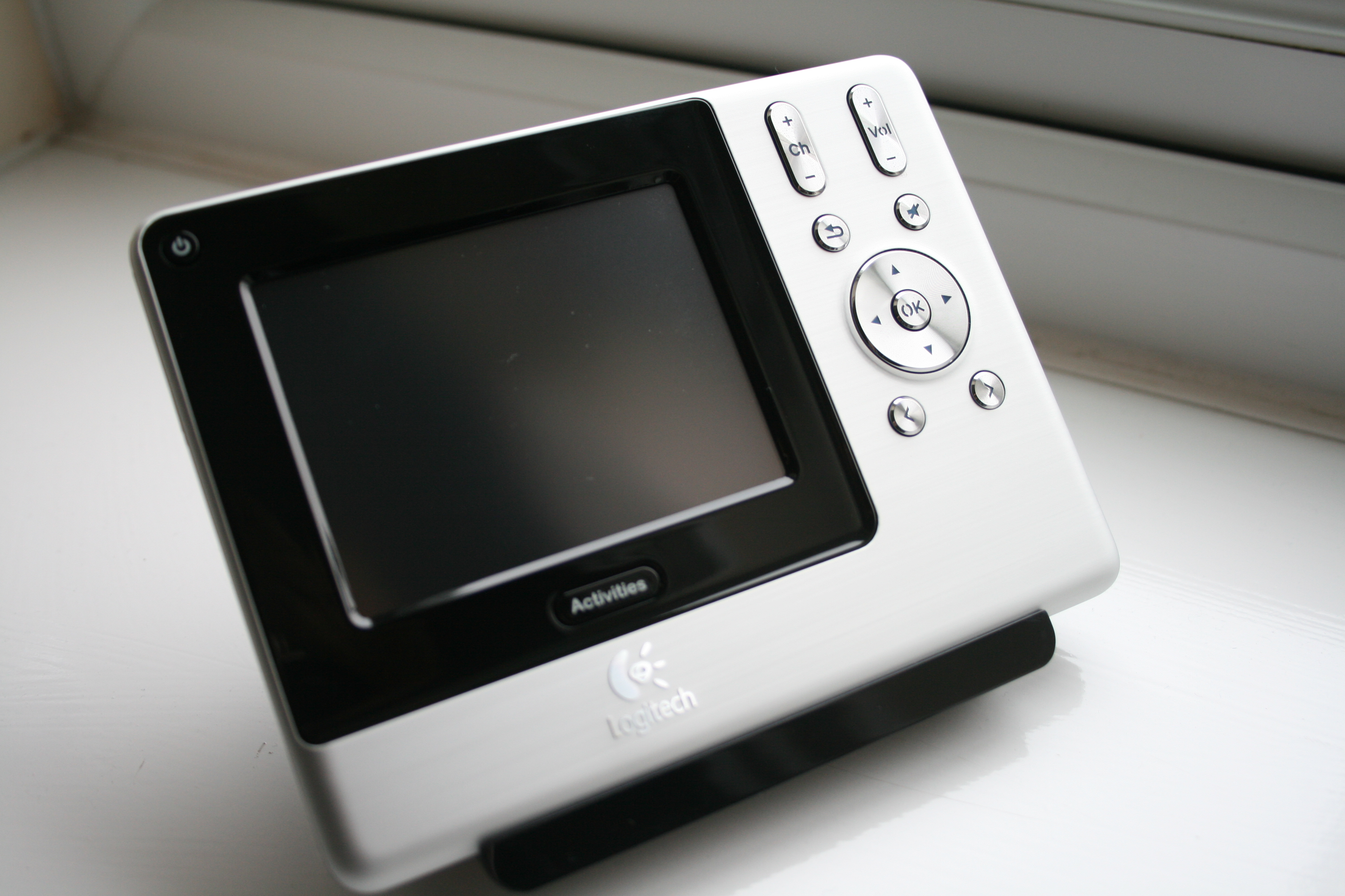 Brand new Logitech Harmony 1000 universal remote control. It's not mine, as dad bought it, and it's for the TV downstairs, but it means that I can have the old Harmony 525 remote in my bedroom for Sky+ HD, which I purchased originally. :) Not yet set this one up though, so for now, pictures of it are all you're getting. :D